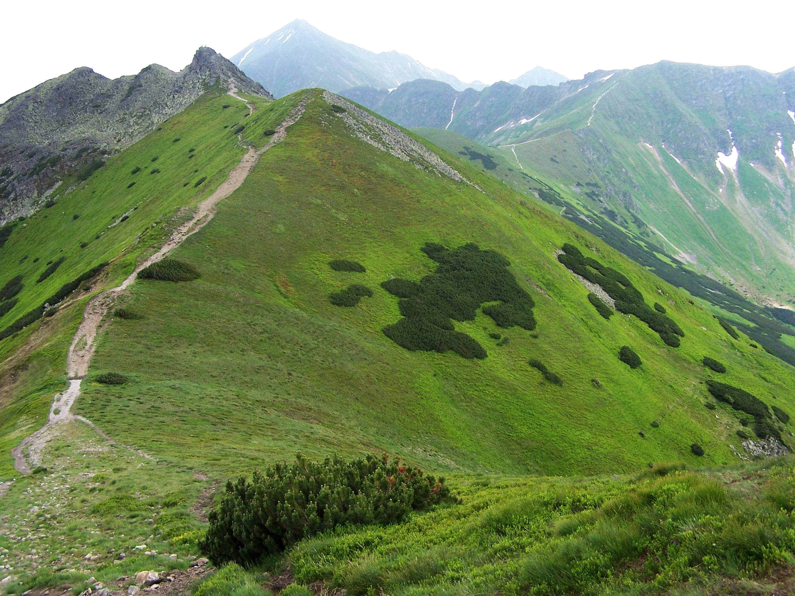 Ornak (West Tatra Mountains)